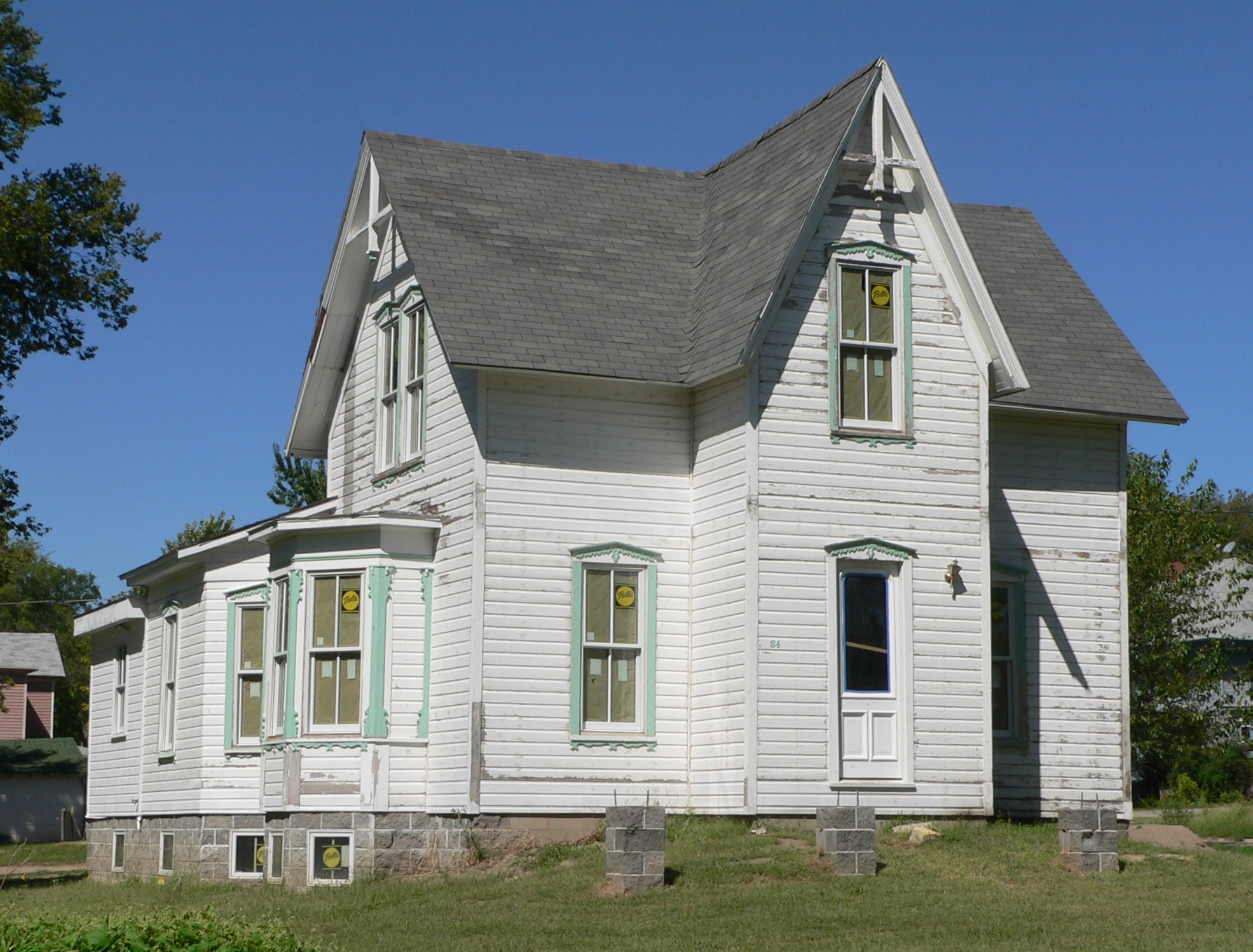 Matthew R. Bentley House in Red Cloud, Nebraska; seen from the southeast. The Gothic Revival house was built in 1883. It is listed in the National Register of Historic Places.